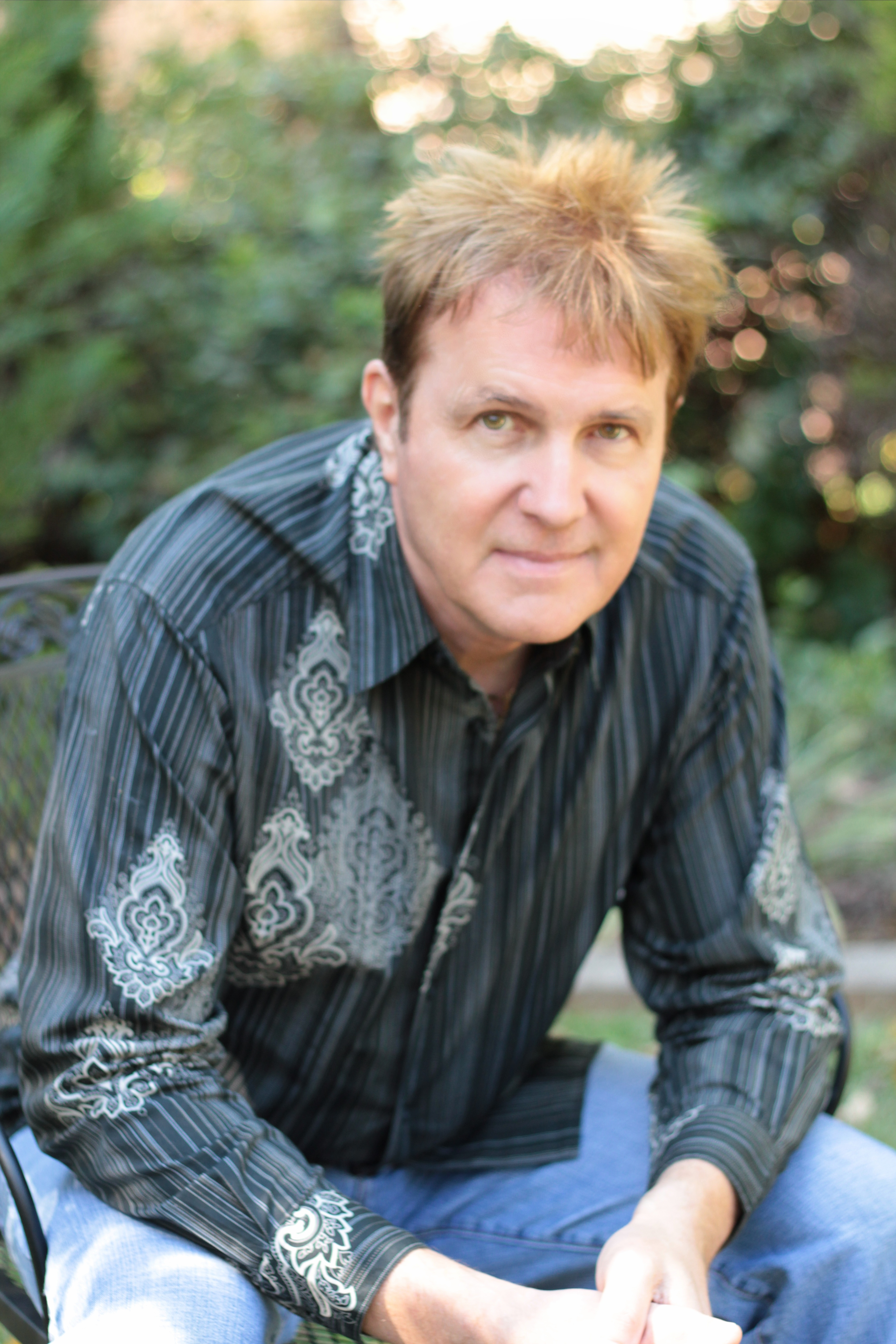 sitting in the back yard